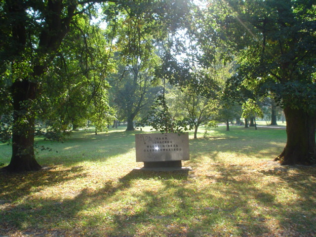 W.I.Garbolewski Park in Sochaczew